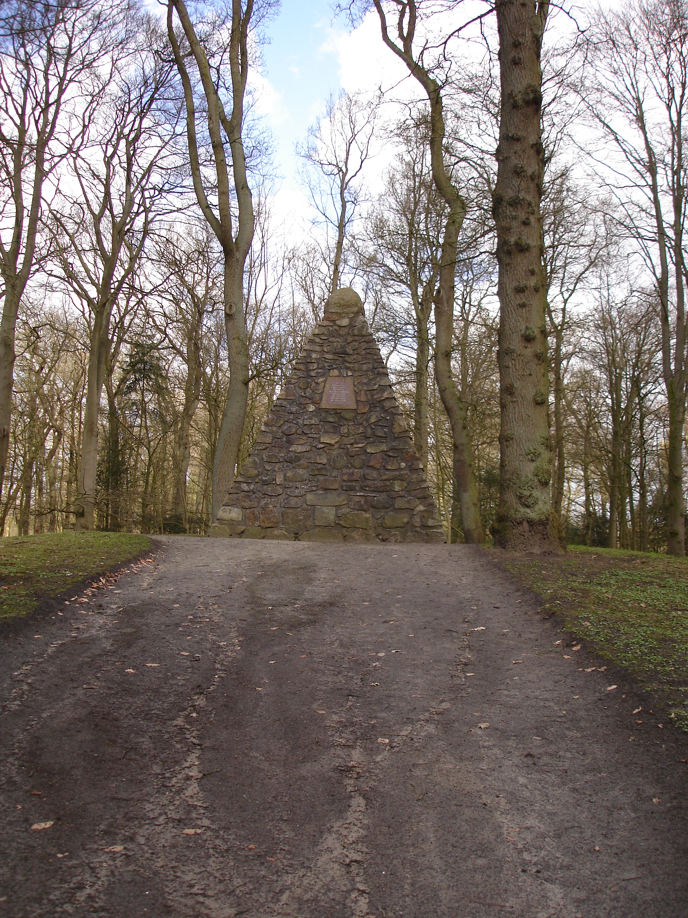 Upstalsboom, former thing or ting